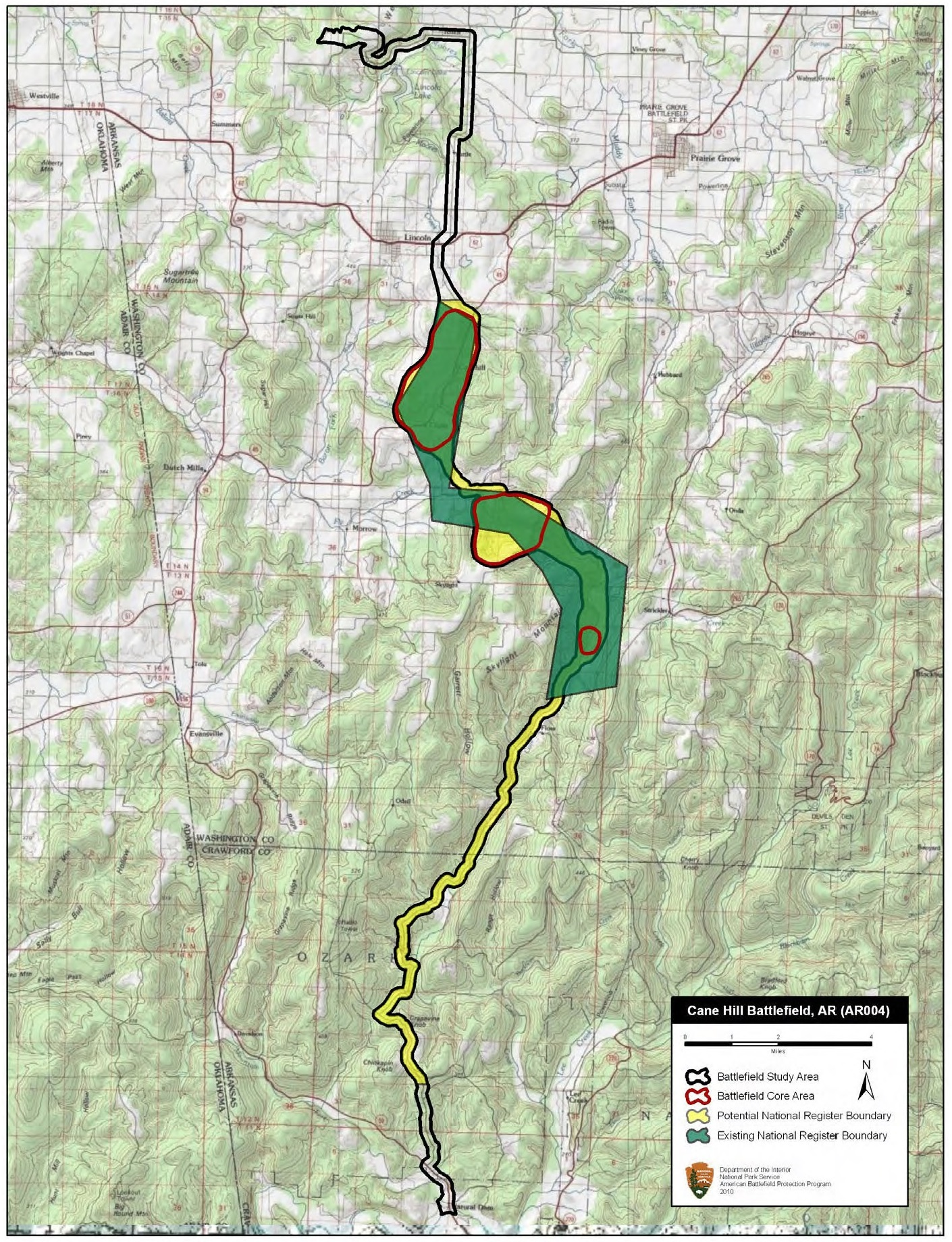 Map of battlefield core and study areas. The Study Area includes the starting point of the Federal probing movement south toward Cane Hill, the starting point (Lee Creek camp) of the Confederate probing movement north toward Cane Hill, and the three engagement areas at Cane Hill, Fly Creek Valley, and Cove Creek. The Cane Hill Core Area was revised to include more positions of Federal artillery. The Cove Creek Core Area was added to illustrate the location of the Confederate ambush that decided the outcome of the battle.